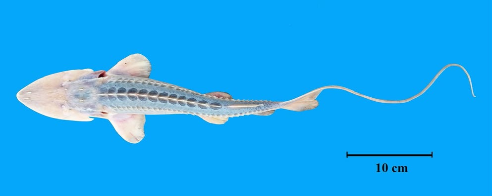 The Amu Darya Sturgeon is one of the rarest sturgeon "fossil fish" in the world. It is endemic to the Amu Darya basin. It is currently a species on the verge of extinction Oʻzbekcha/ўзбекча: Amudaryo katta kurakburuni butun dunyodagi eng noyob bakrasimon baliqlardan biri hisoblanadi. U Amudaryo havzasi endemigi. Ayni vaqtda qirilib ketish xavfi ostida turgan tur.